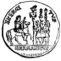 738 woodcuts illustrating the work A Dictionary of Roman Coins, Republican and Imperial (1889). To identify a coin please look at the filename to identify a page number, and check the Dictionary on numiswiki